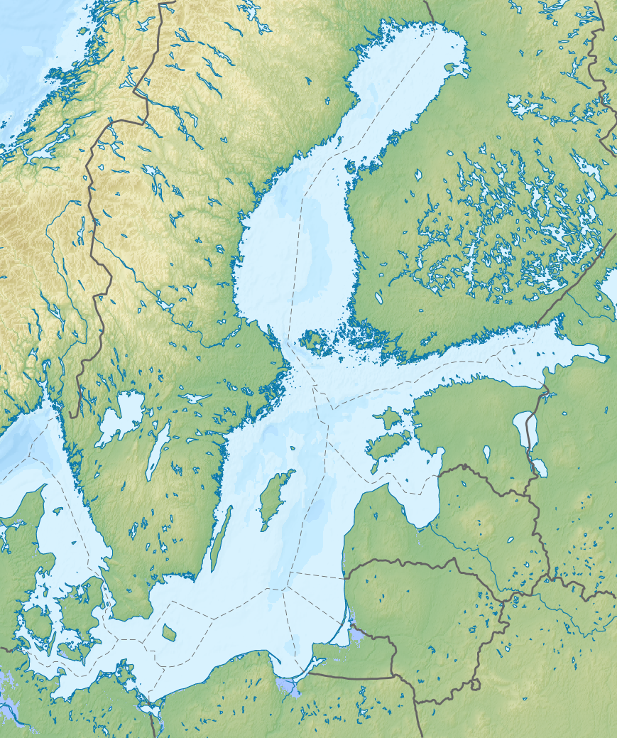 Relief map of the Baltic Sea with national borders added Equirectangular projection, N/S stretching 200 %. Geographic limits of the map: N: 66.2° N S: 53.3° N W: 9.0° E E: 30.6° E